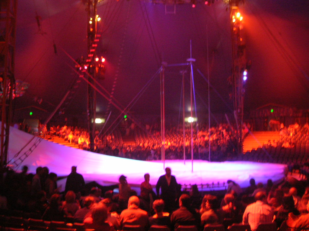 Inside Cirque du Soleil's "grand chapiteau" at Saltimbanco